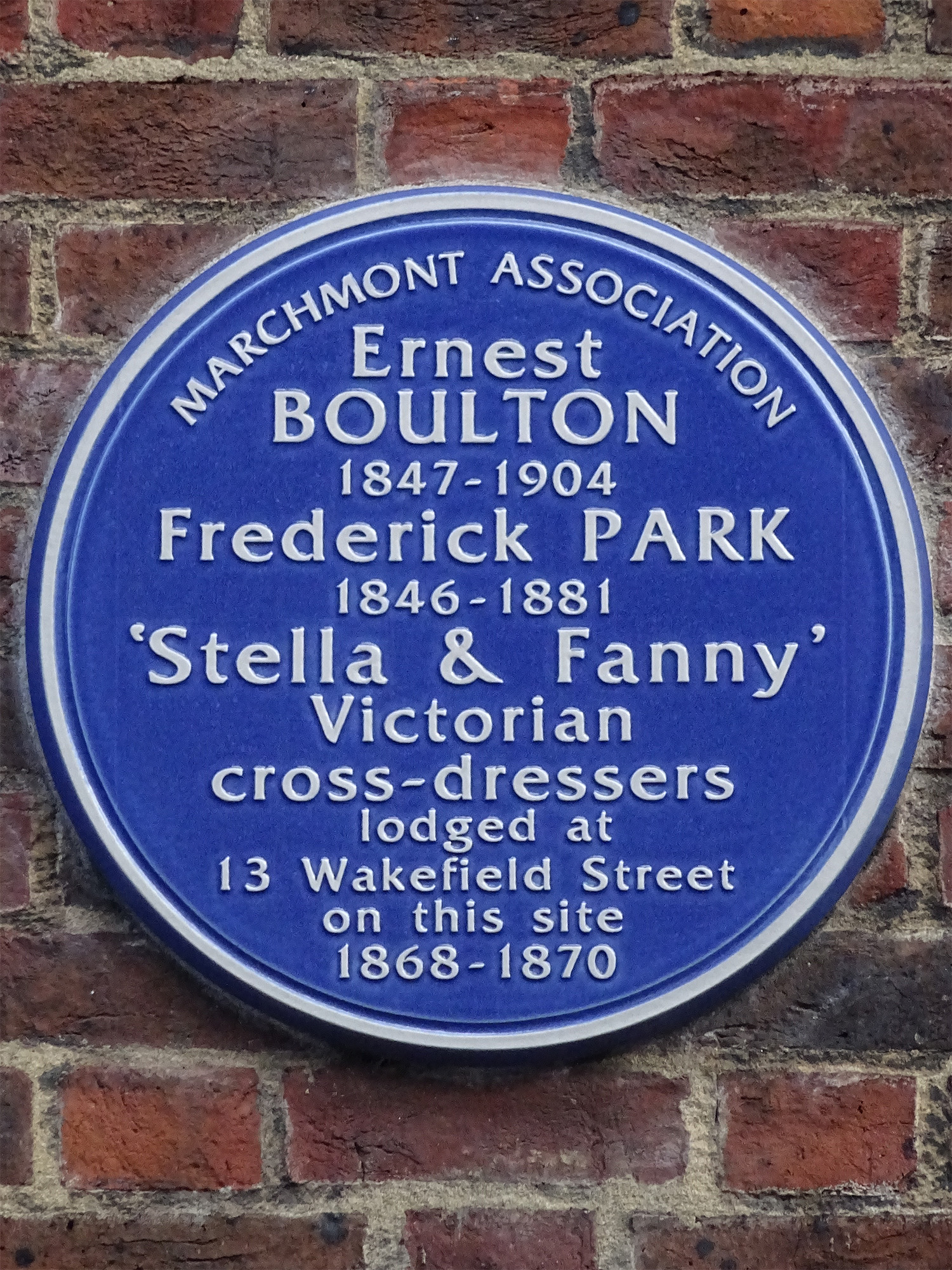 Blue plaque erected 10th July 2013 by Marchmont Association at 13 Wakefield Street, Kings Cross, London WC1N 1PF